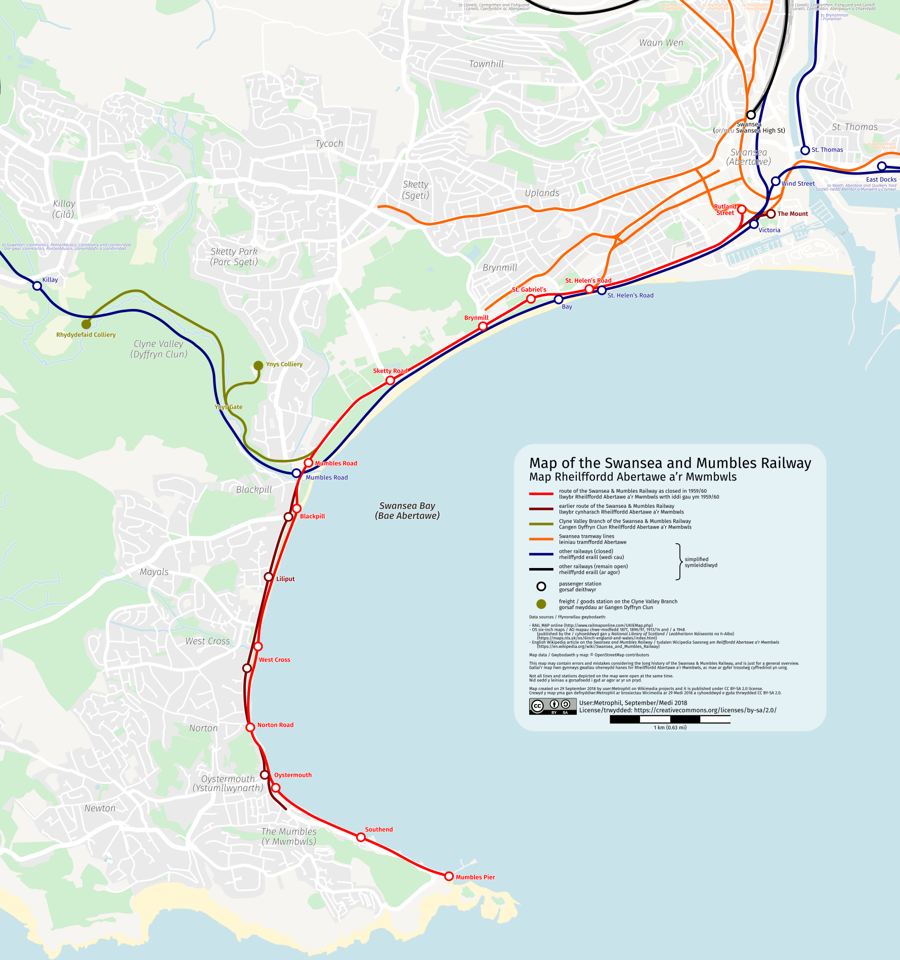 Map of the Swansea and Mumbles Railway (1804–1960). Also depicted: other railways (simplified) and the Swansea tramway lines (note: not all lines and stations were open at the same time).